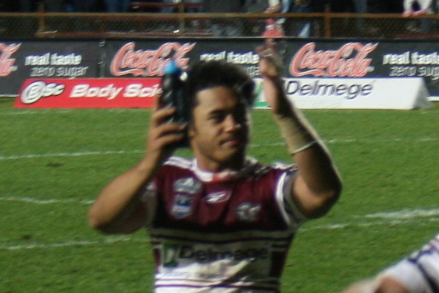 pic of manly player